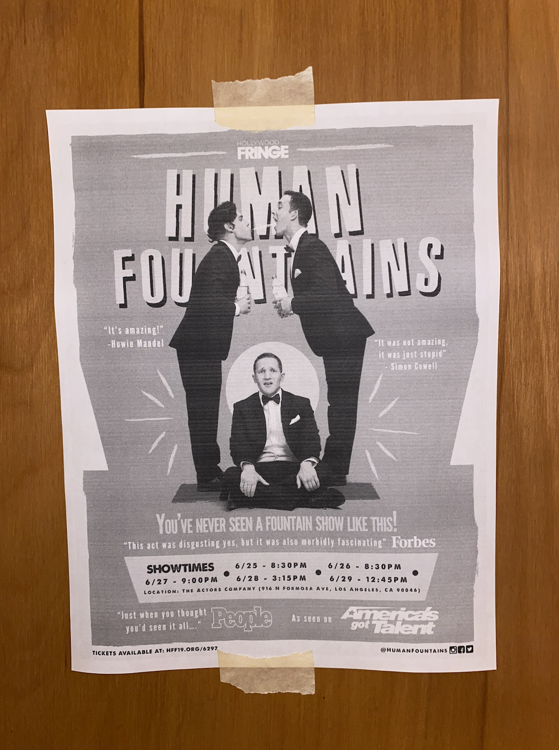 Photograph of a poster for a live theater performance by the Human Fountains